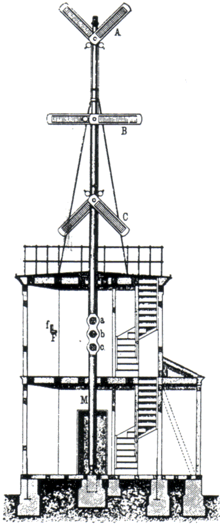 Construction of prussian optical telegraph